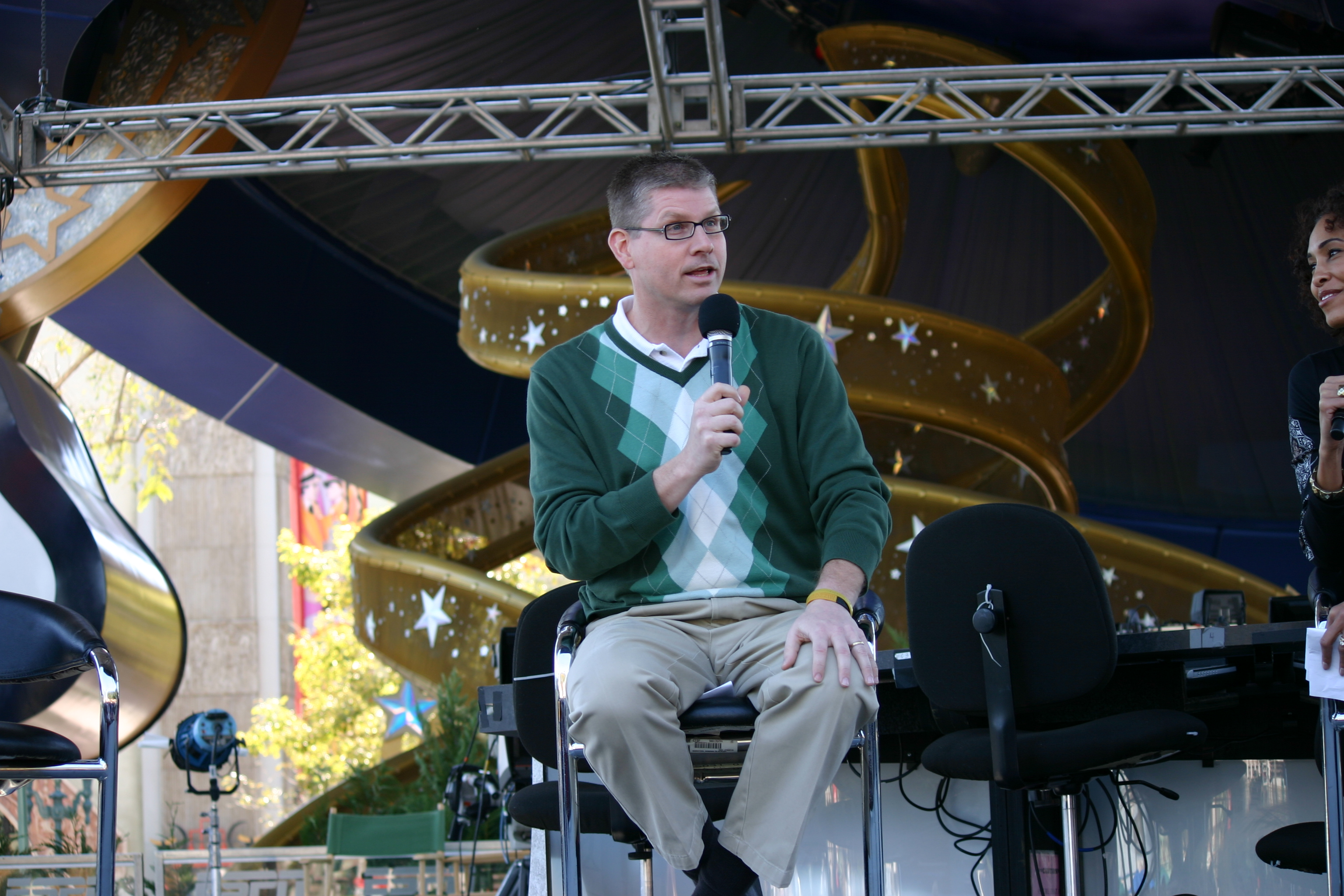 Inside SportsCenter at the Sorcerer Hat Stage with John Anderson during ESPN the Weekend, February 26, 2010.